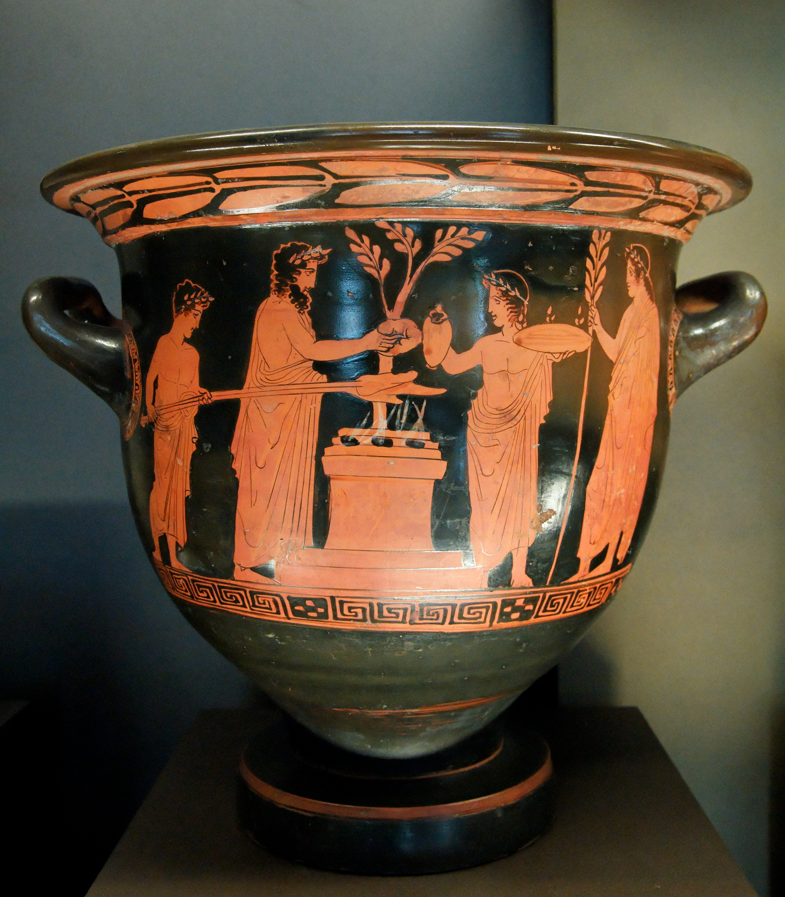 Sacrifice scene. Attic red-figure krater, ca. 430 BC–420 BC. Found in Athens.